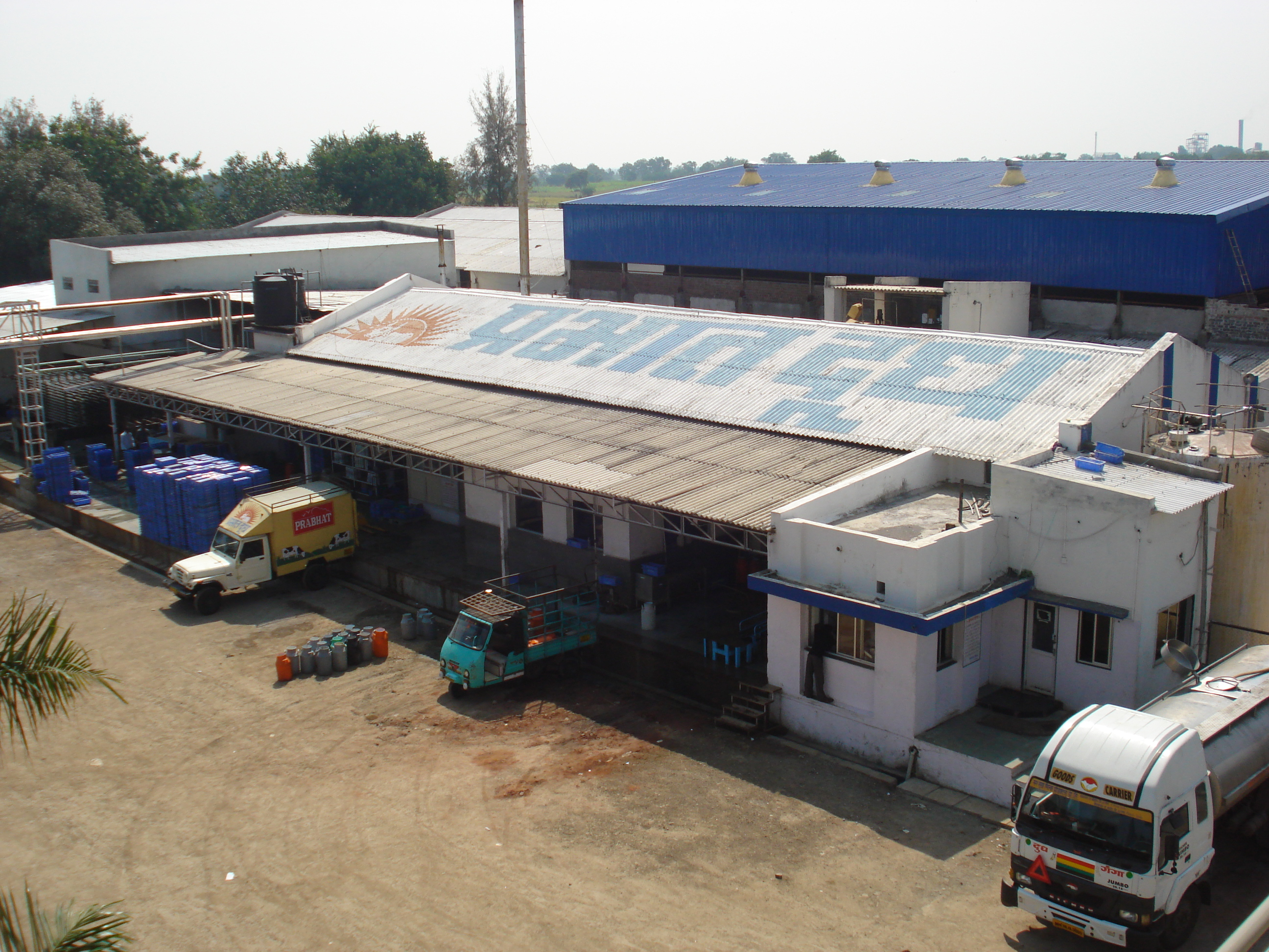 SNAP OF FACTORY